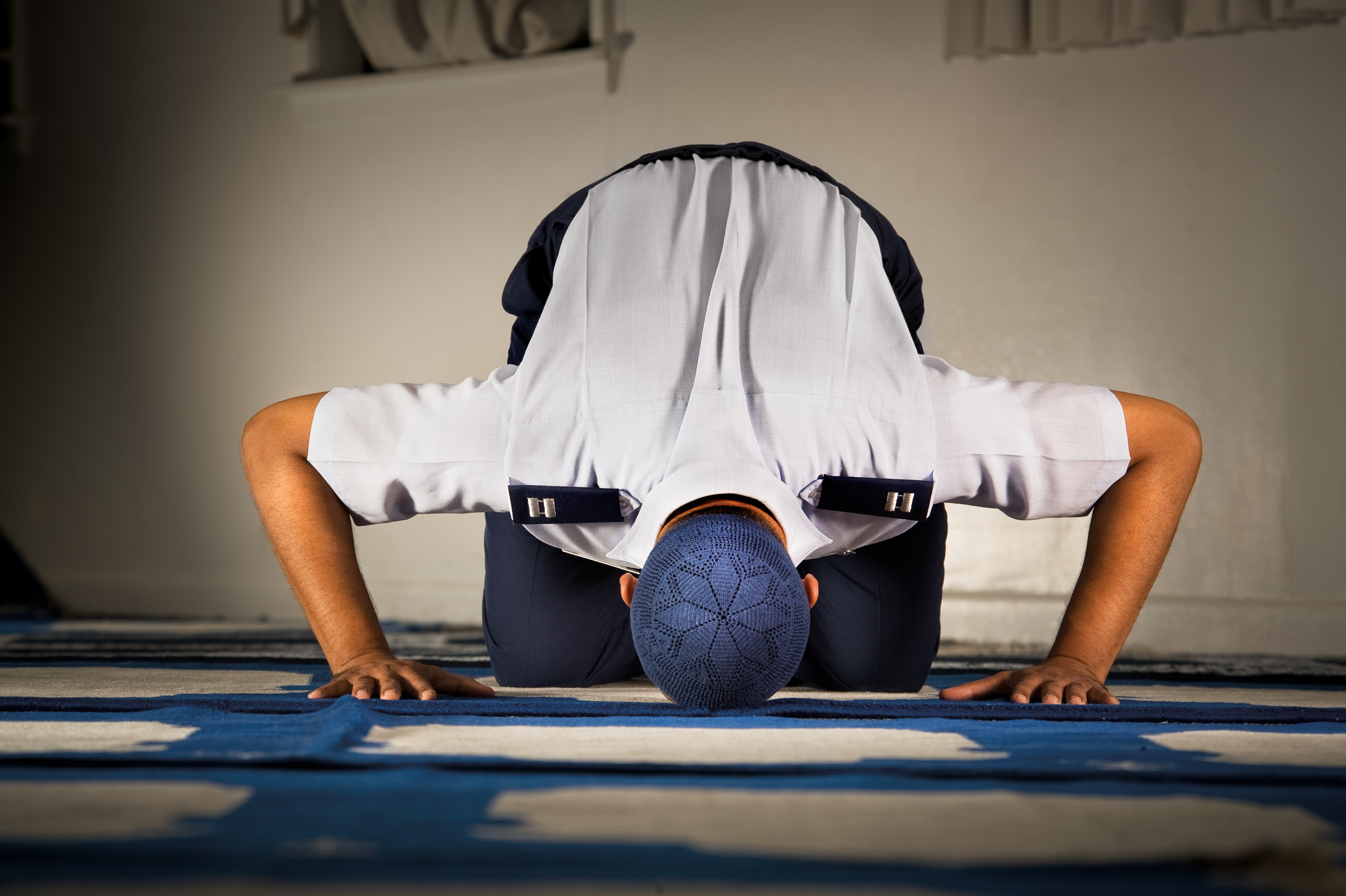 Chaplain (Capt.) Sharior Rahman, an Air Force Imam, holds the sajjud position during salah in the prayer hall of the Defense Language Institute Student Center, Lackland AFB, Texas. The center sees as a many as 550 people each Friday. (U.S. Air Force photo/Lance Cheung)